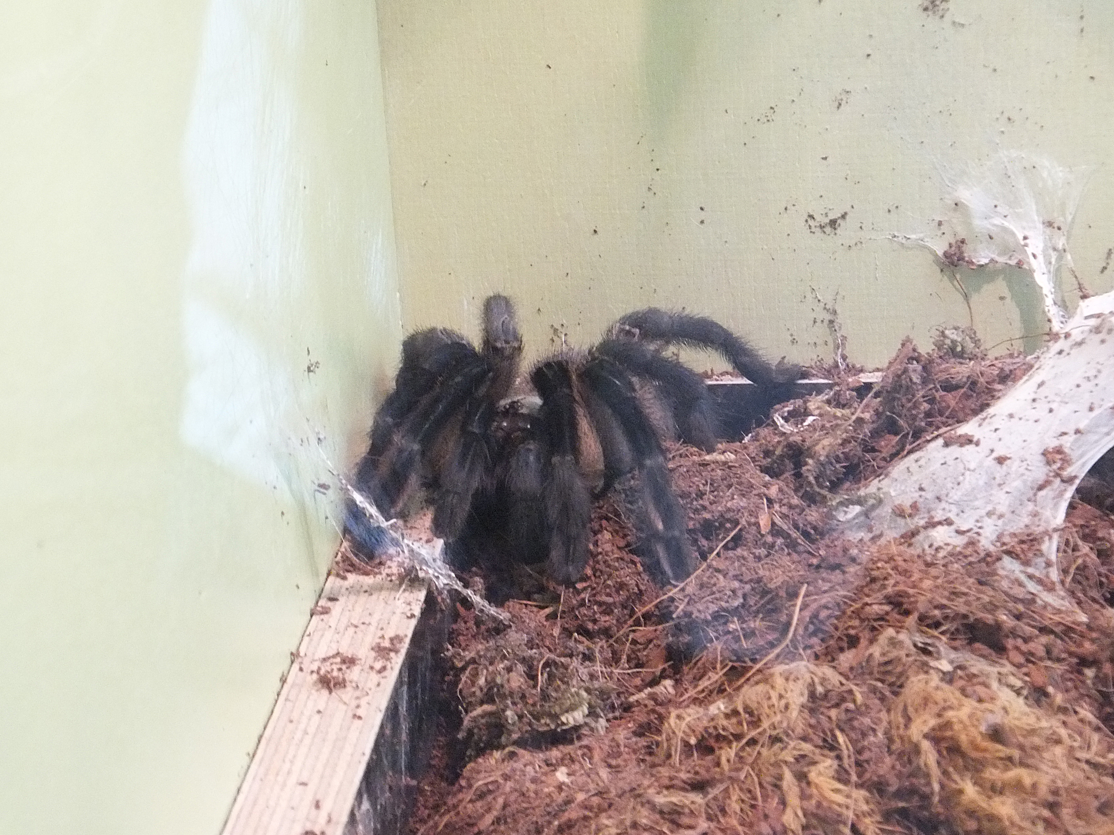 "SPIDERS" exposition at the Museo di storia naturale Giacomo Doria - Monocentropus balfouri